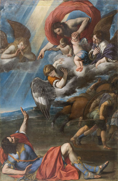 The conversion of St Paullabel QS:Lca,"La conversió de Sant Pau"label QS:Len,"The conversion of St Paul"